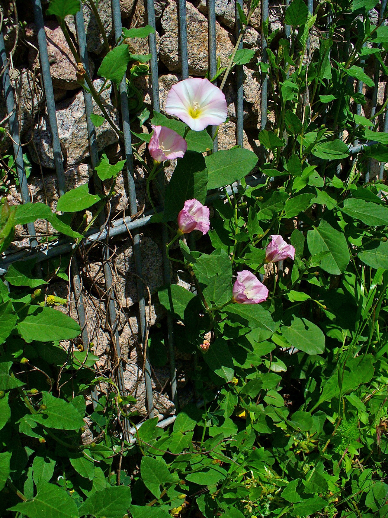 Convolvulus arvensis, Convolvulaceae, Field Bindweed, habitus; Karlsruhe, Germany. The fresh aerial parts of the blooming plant are used in homeopathy as remedy: Convolvulus arvensis (Convo-a.)